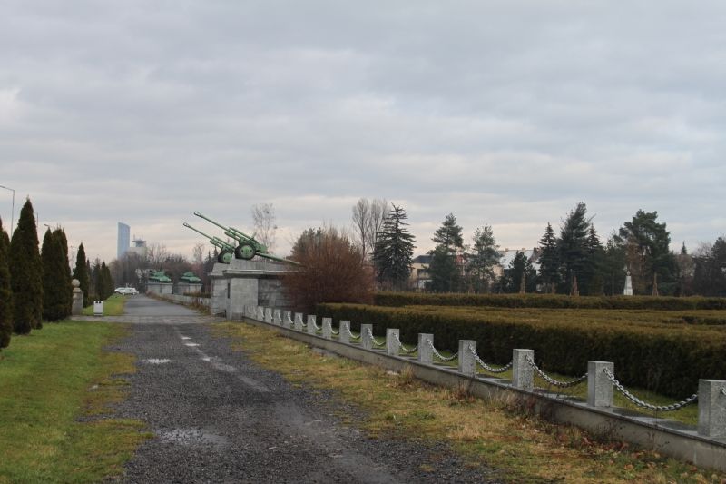 Кладбище советских офицеров во Вроцлаве (Бреслау)